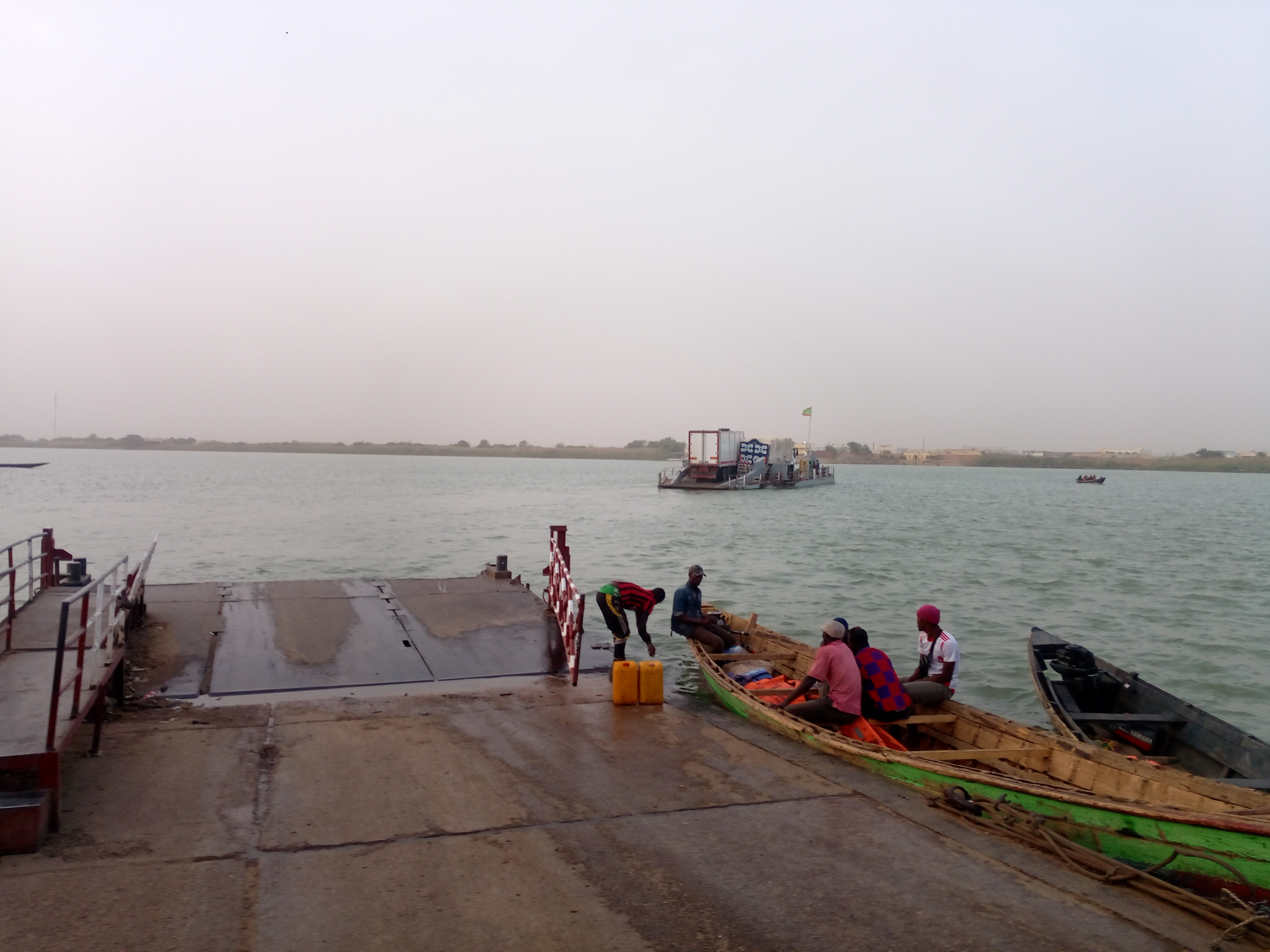 This is an image with the theme "Africa on the Move or Transport" from: Senegal